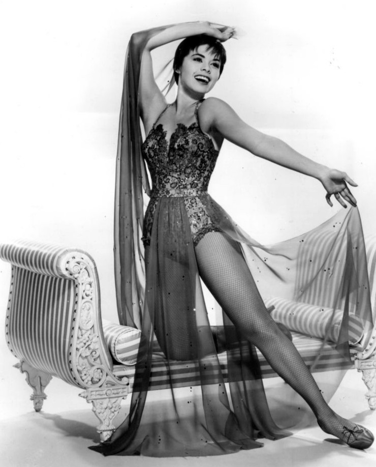 Publicity photo of Neile Adams, who was married to Steve McQueen at the time. The photo was issued to publicize her appearance on the television program Alfred Hitchcock Presents with her husband in the episode "Man From the South".